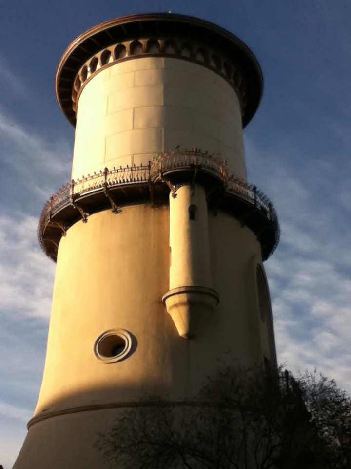 Fresno Water Tower